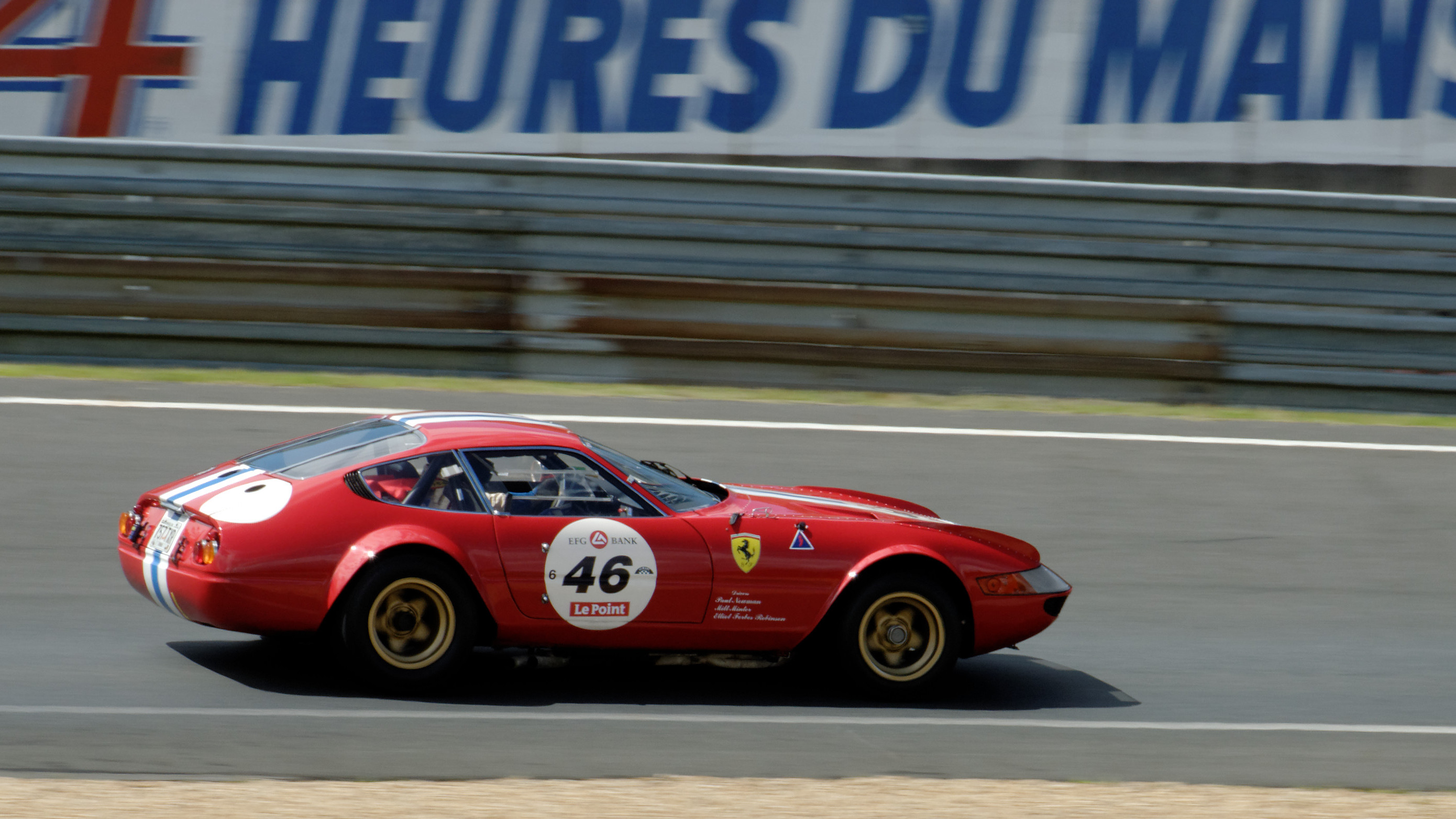 1971 Ferrari 365 GTB/4 Competizione s/n 14437 – at Le Mans Classic on 7 July 2012.[1]